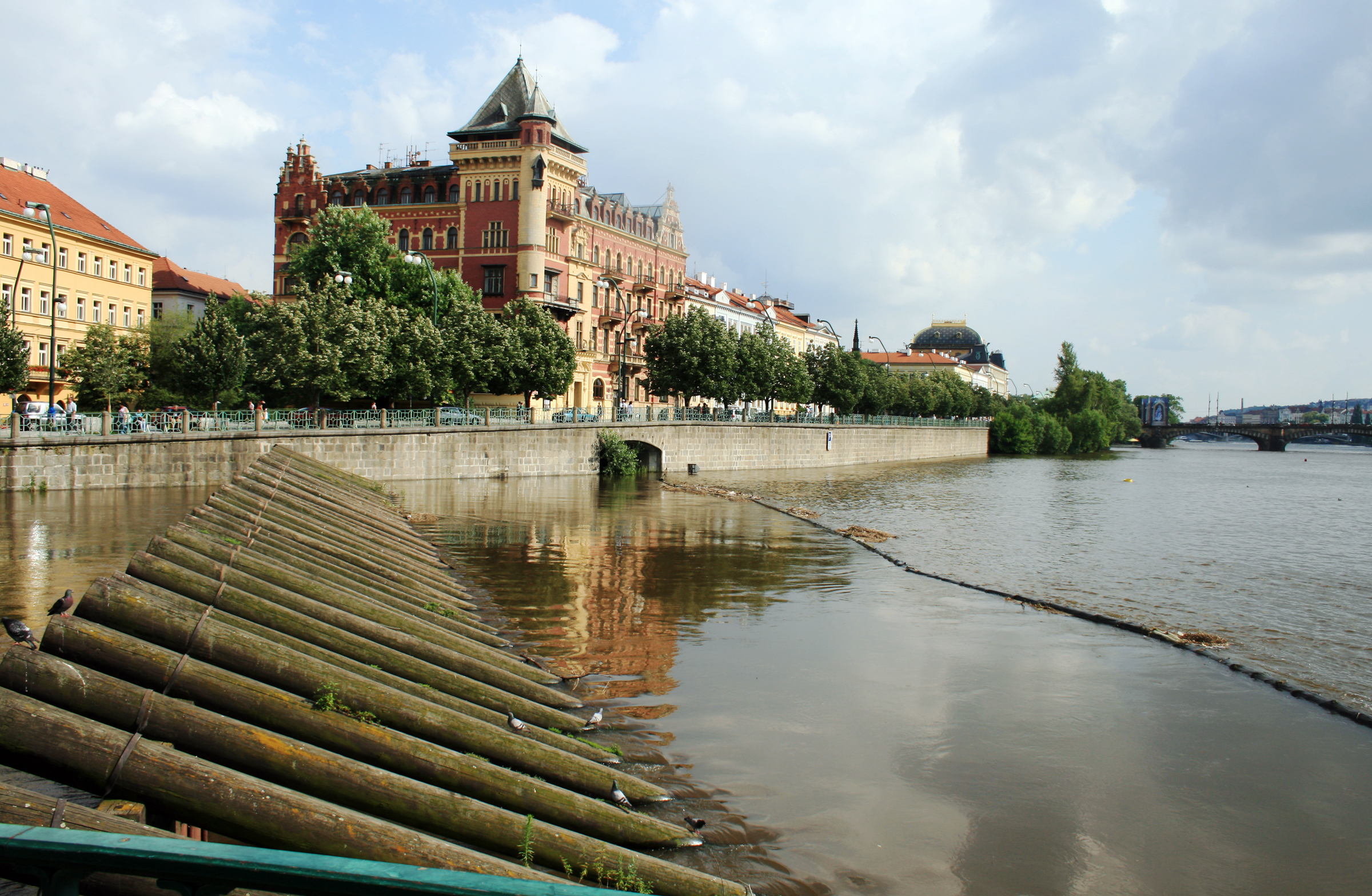 View from Novotného lávka to Vltava bank, Prague, Czech Republic